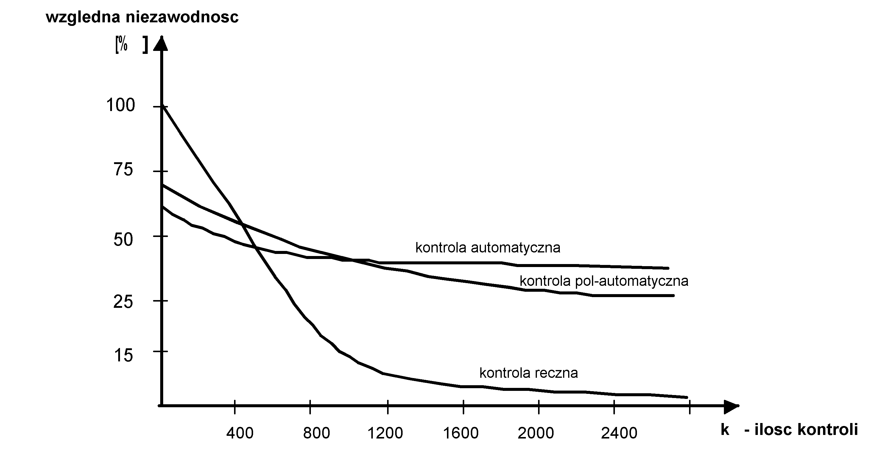 Reliable control versus level of automation